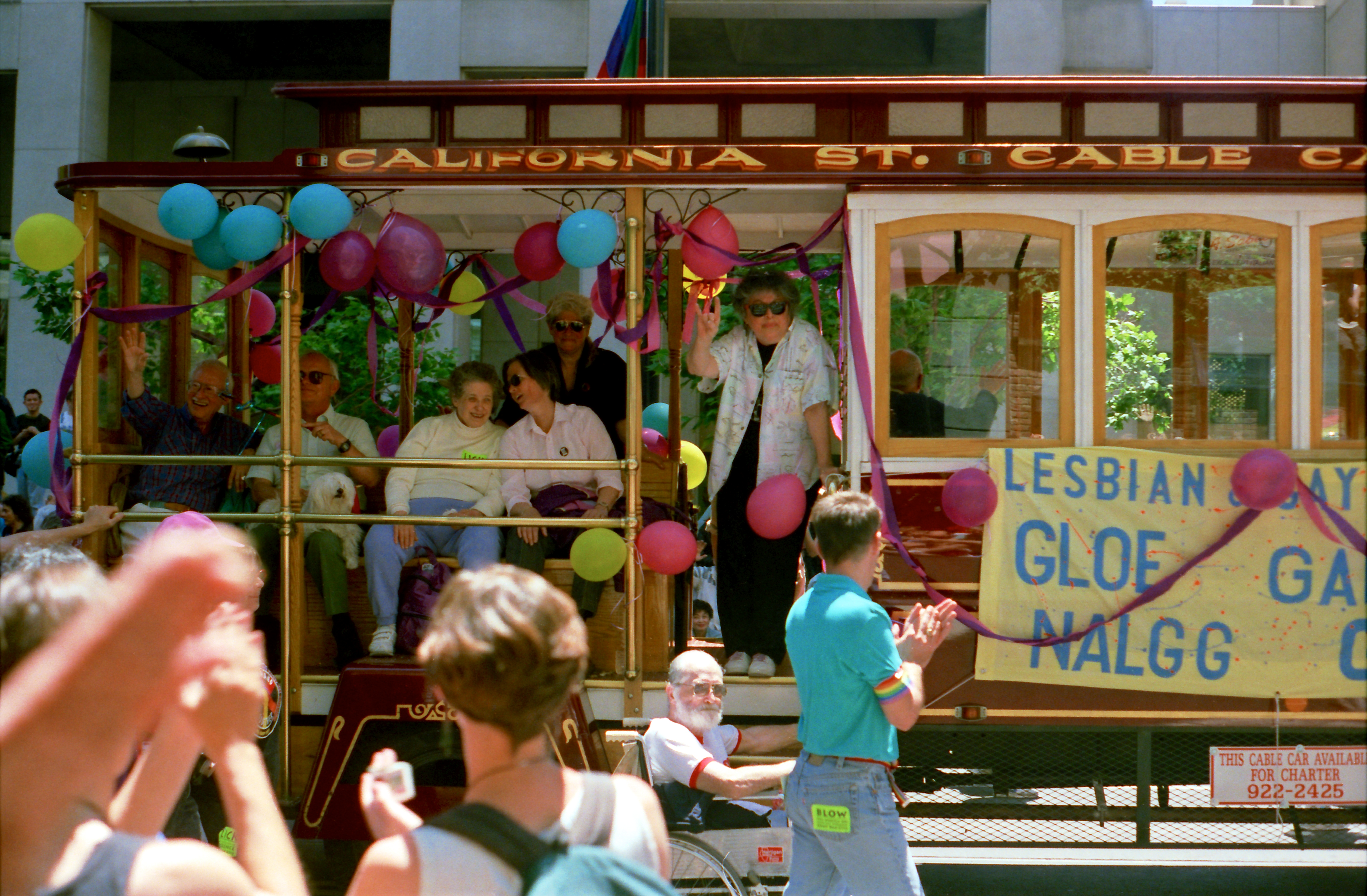 1991SFPrideKodak5095Gold100-2Film_0007 - Gay and Gray - Gay Elders Contingent